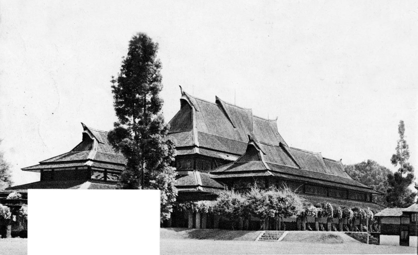 Bandung Institute of Technology, main building